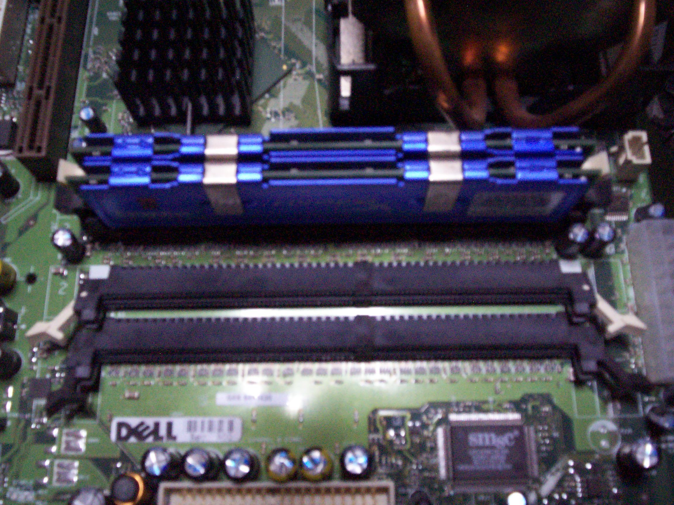 Photo of SDRAM DDR RAM modules, installed in sockets